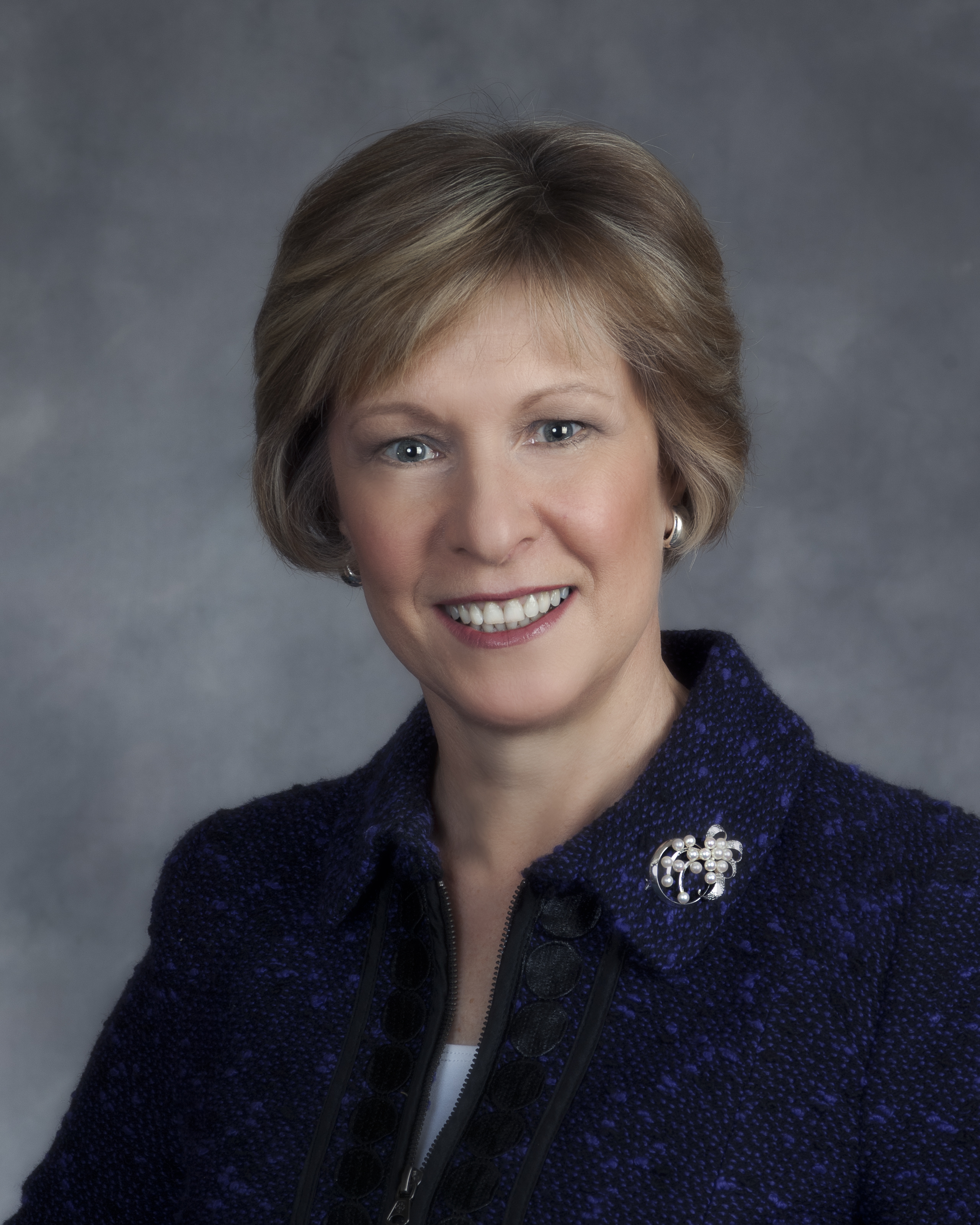 Suzanne M. Bump official photo